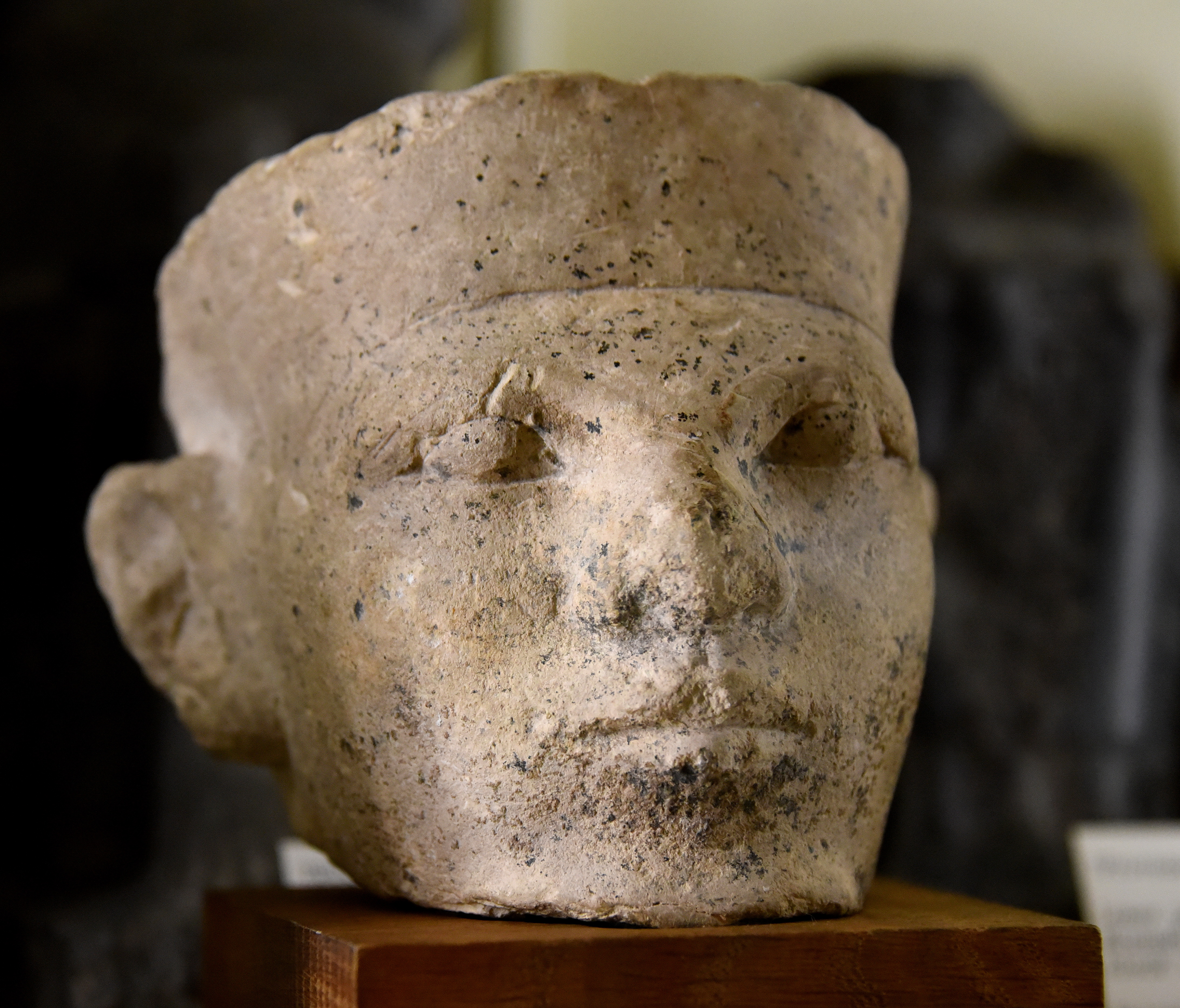 Limestone head of a man. Thought by Petrie to be Narmer. Bought by Petrie in Cairo, Egypt. 1st Dynasty. The Petrie Museum of Egyptian Archaeology, London. With thanks to the Petrie Museum of Egyptian Archaeology, UCL.